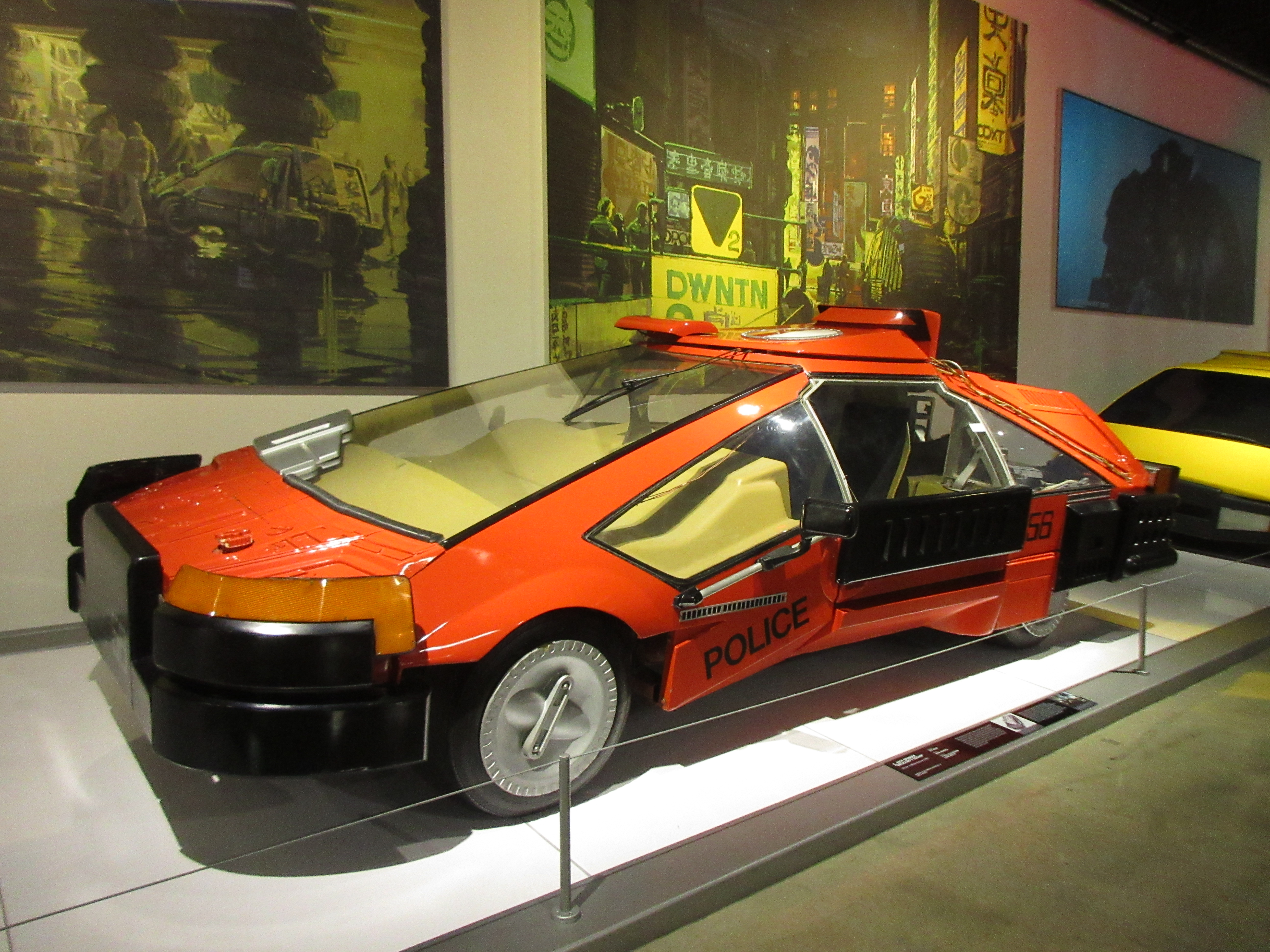 Post-apocalyptic and dystopian movie cars at the Petersen Museum